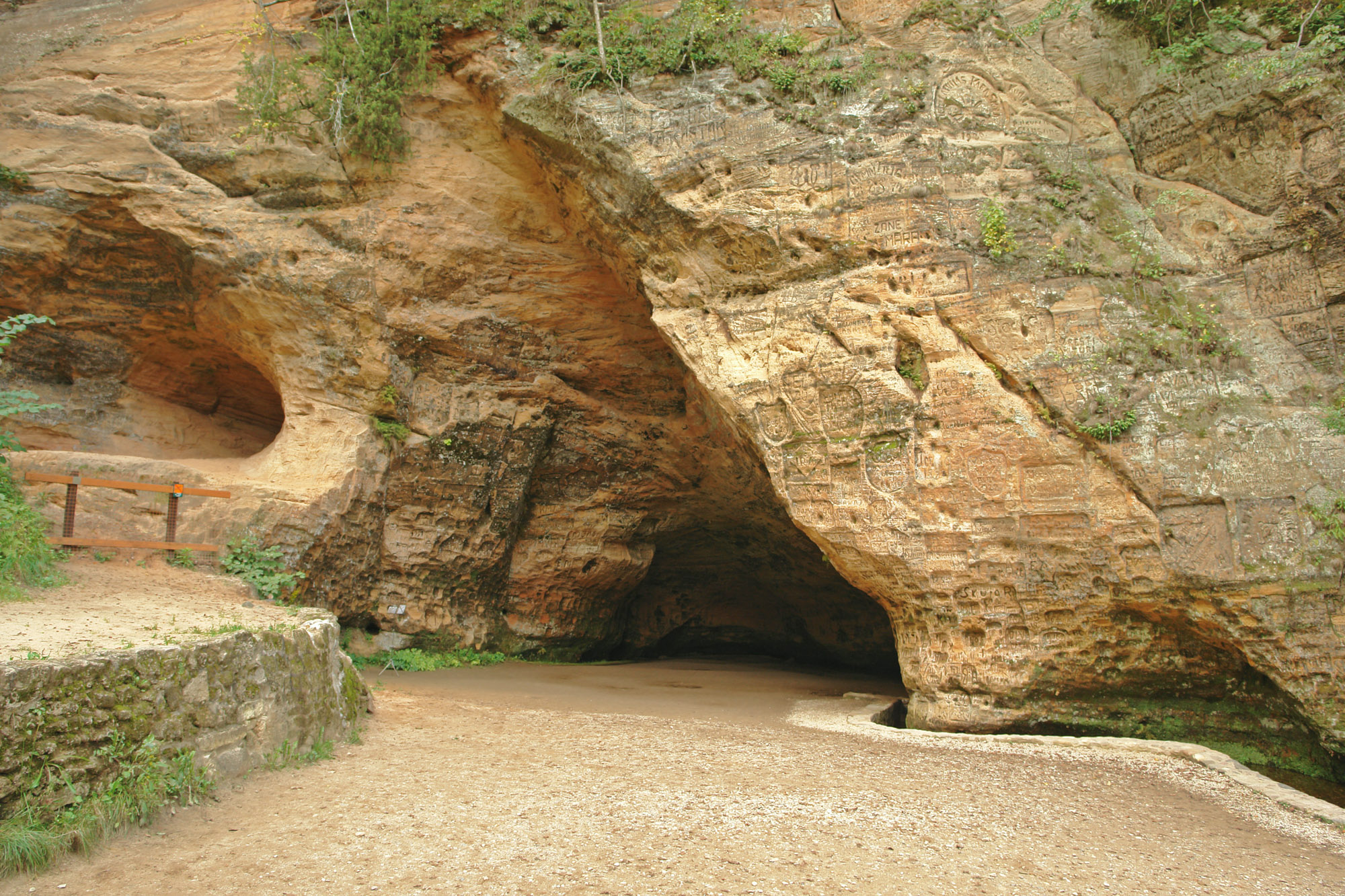 Gutmana cave in Sigulda town, Latvia